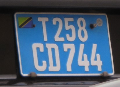 Tanzania_vehicle_registration_Diplomatic_plates